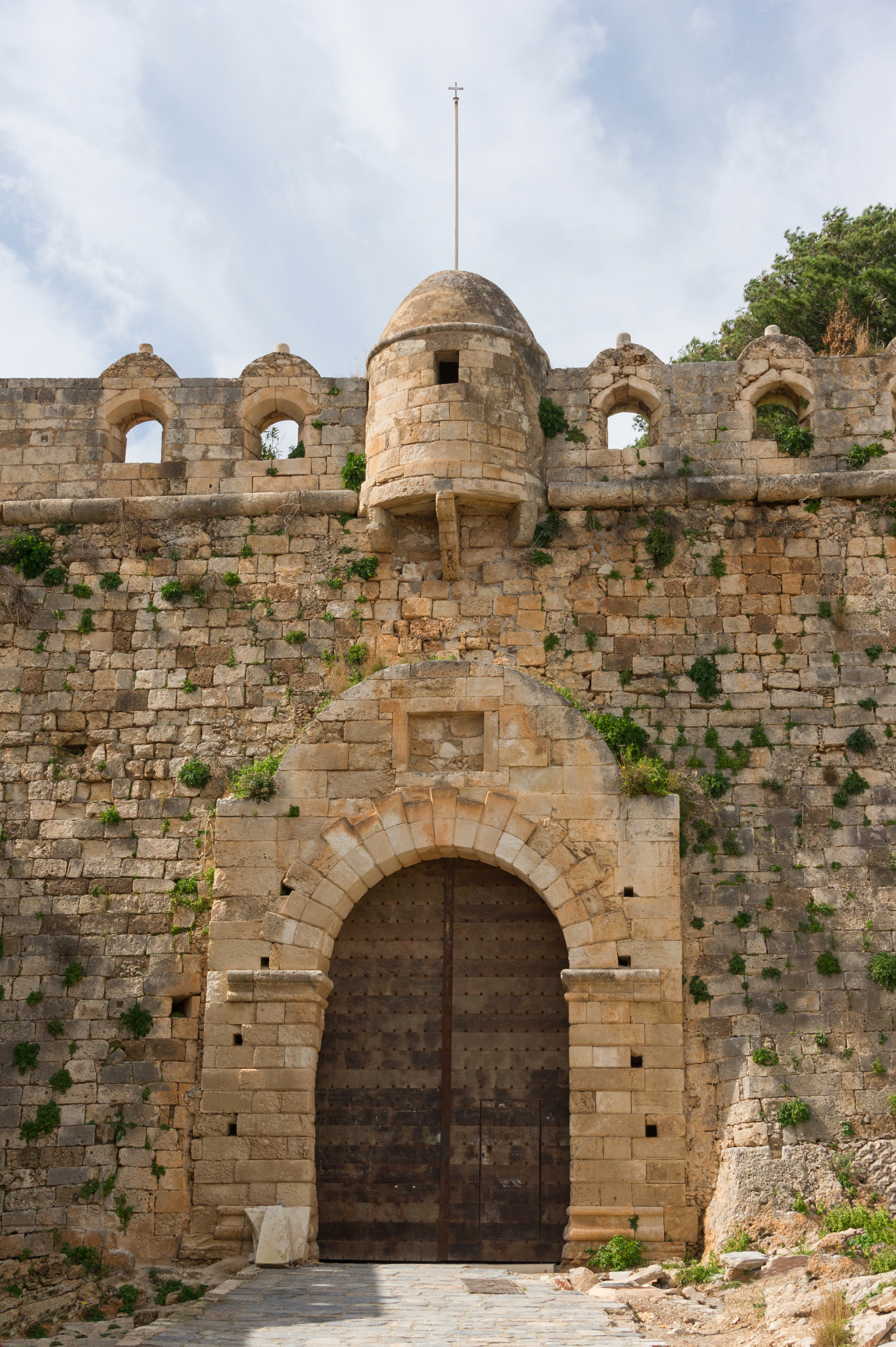 The main eastern entrance of the Rethymno "fortezza", Crete, Greece.